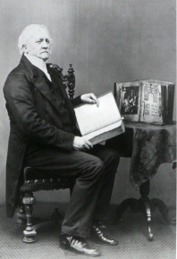 Depicted person: Thomas Phillipps – British antiquarian and book collector